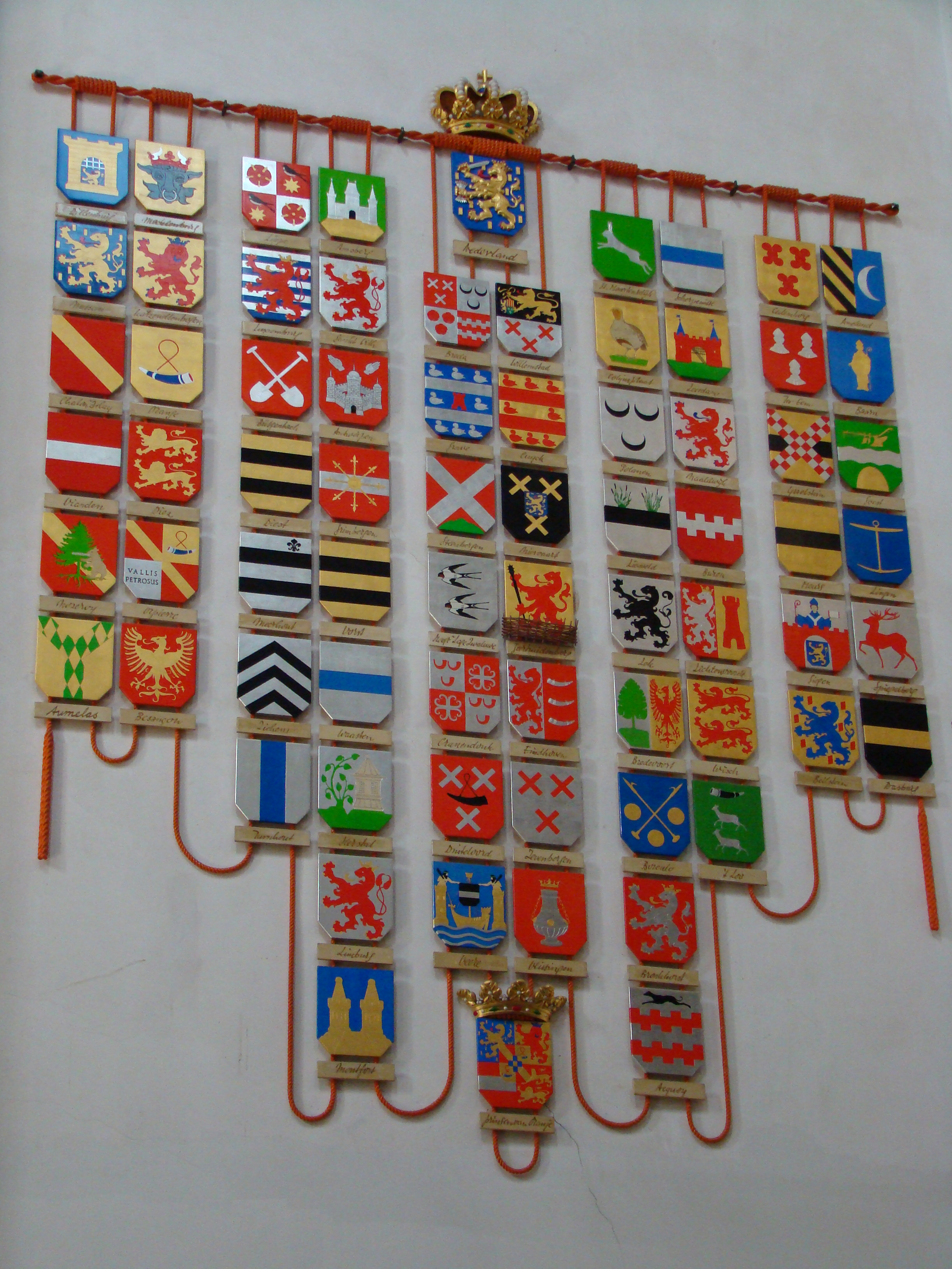 Display of the coats of Arms corresponding to the titles of the Dutch head of State, the house of Orange Nassau. In the Nieuwe Kerk at Amsterdam.